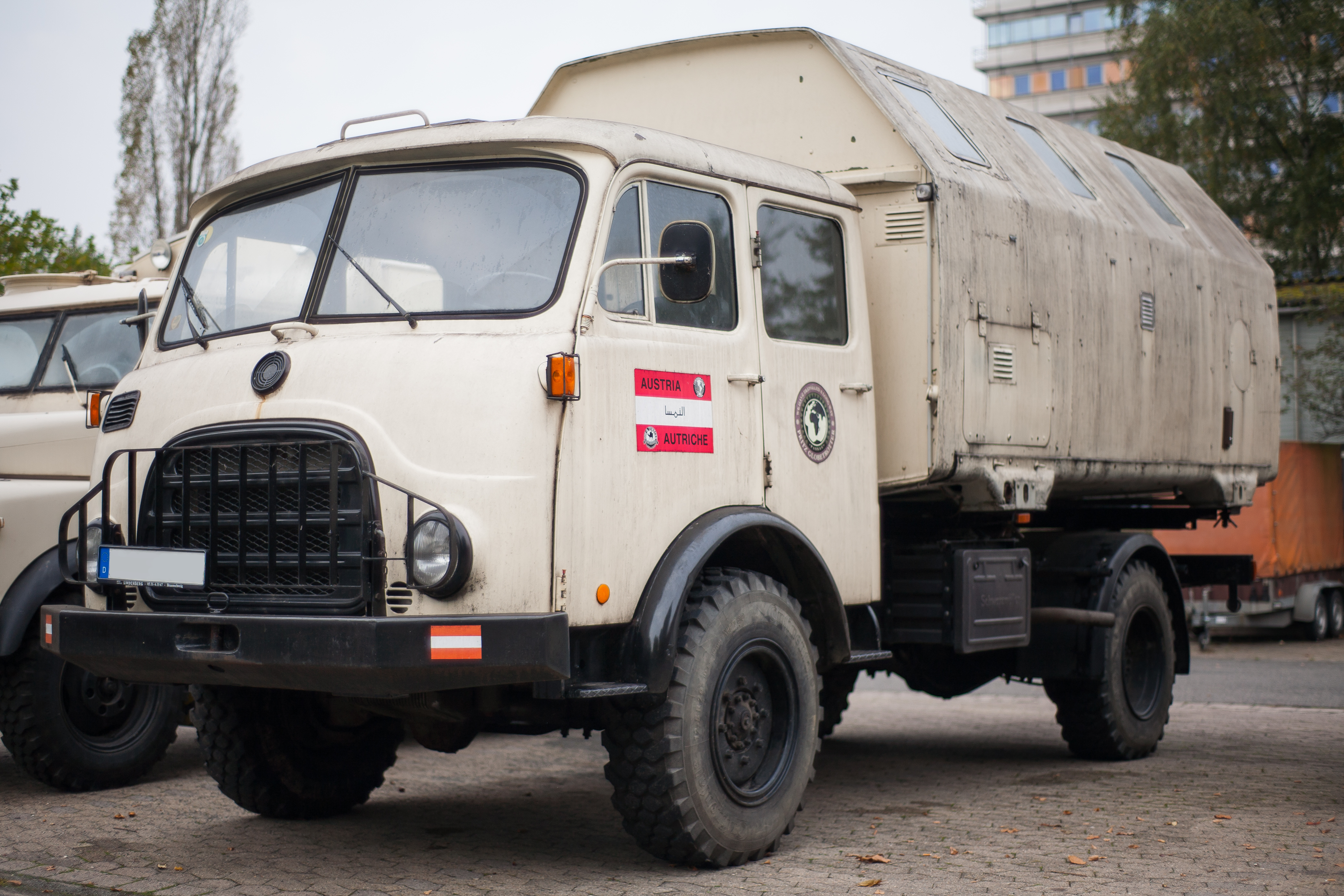 Truck Steyr 680M equipped as expedition vehicle.